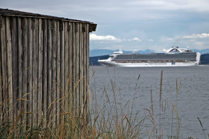 M/S Crown Princess passes by Norwegian Point in Hansville, Washington, USA after leaving Seattle